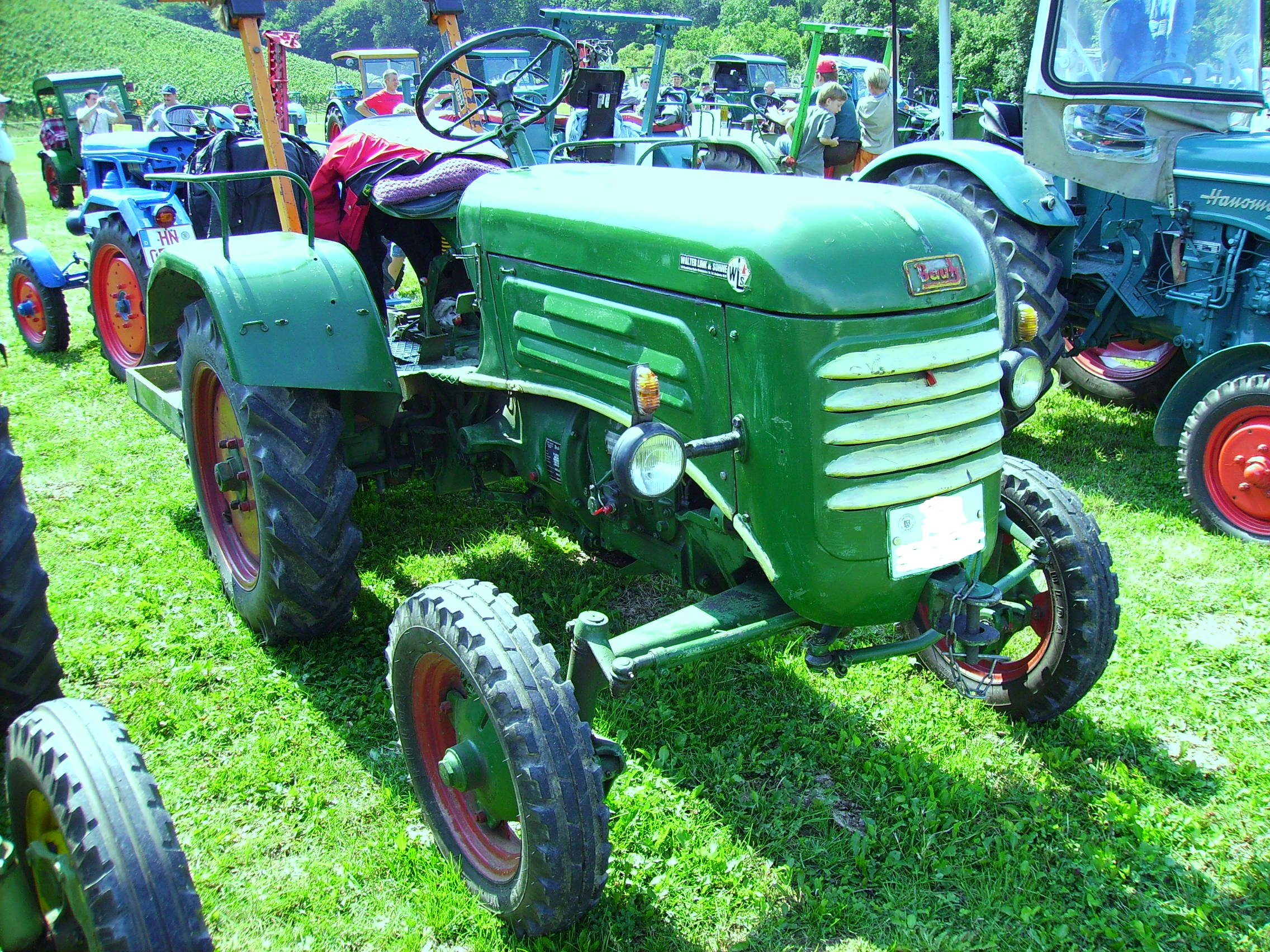 Bautz AW180